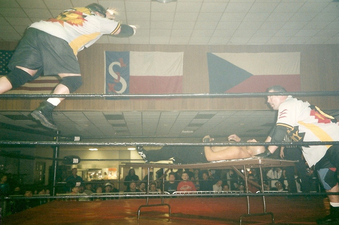 The Public Enemy performing a double team maneuver with a table at an independent show in Omaha, Nebraska, USA on March 1, 2002.